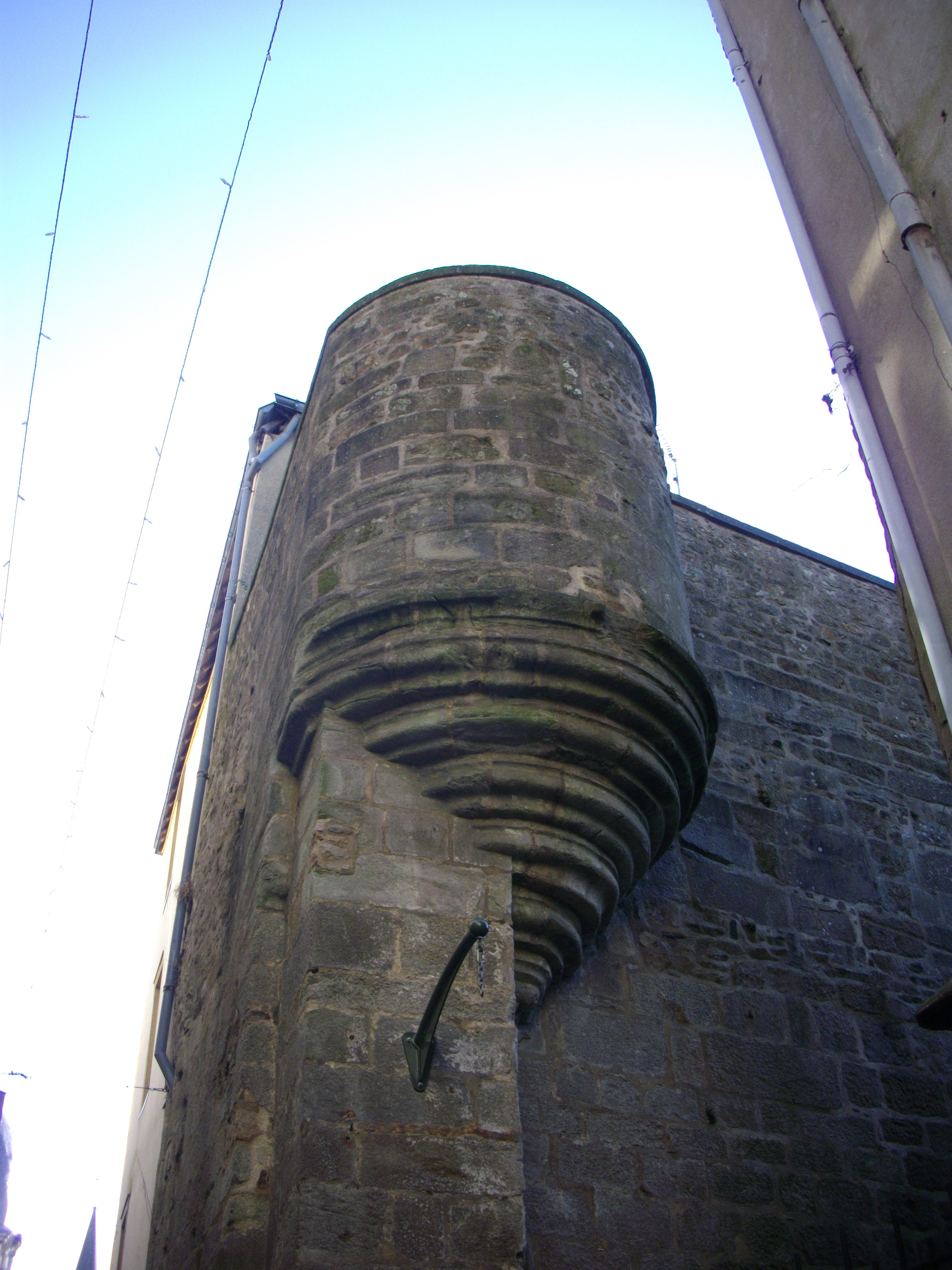 Bartizan on Our-Lady bastion in Vannes (Morbihan, France)